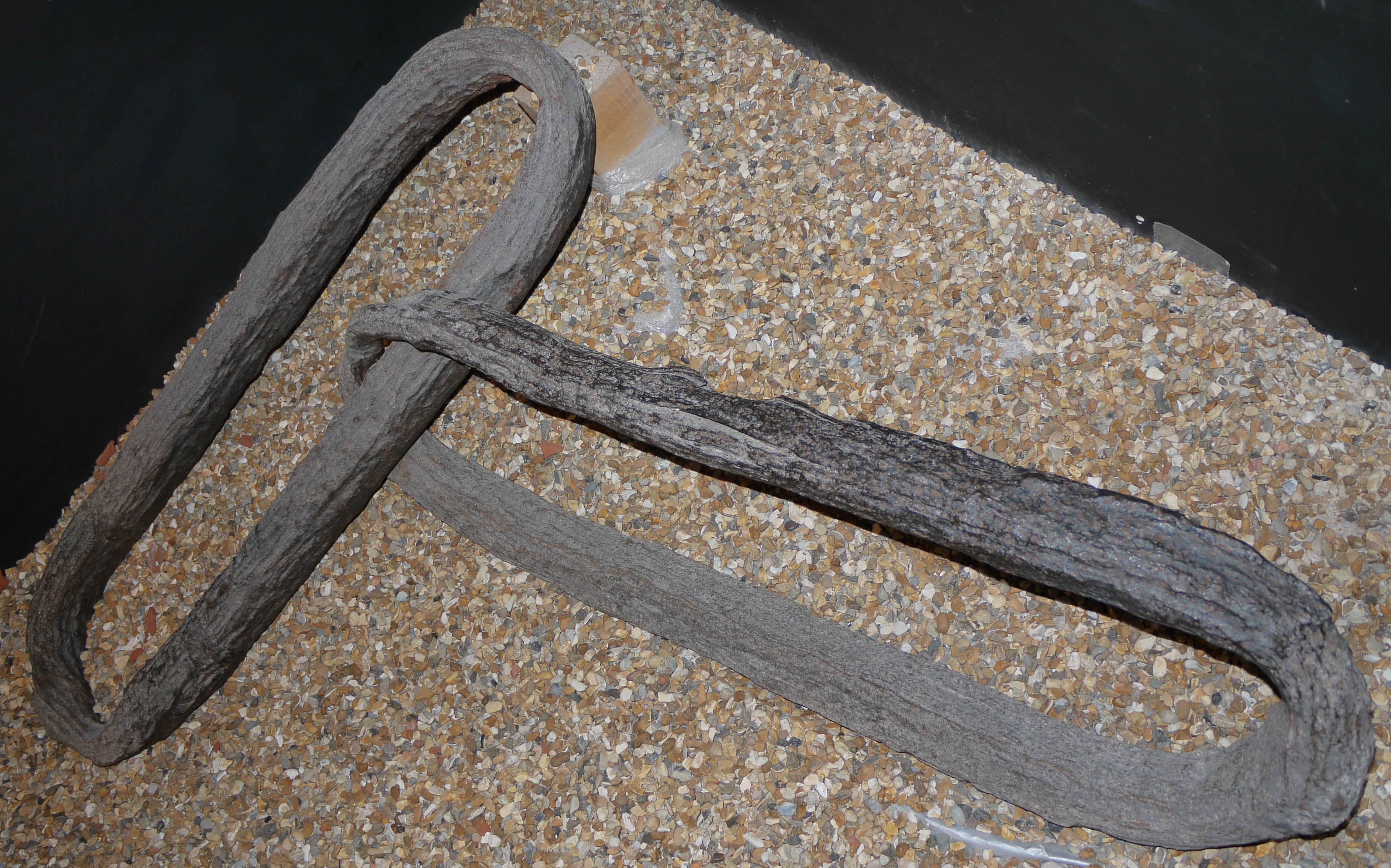 Part of one of the various chains that were constructed to be placed across the mouth of Portsmouth harbor